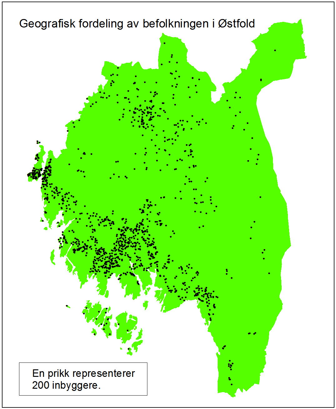 Dot distribution map